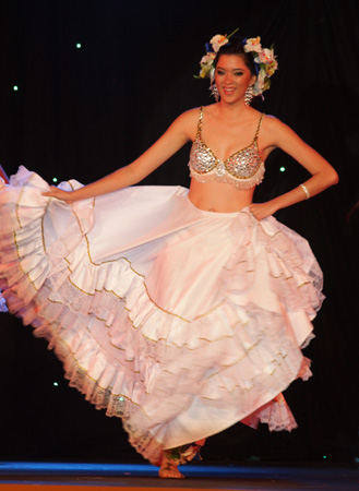 Miss Honduras 2008 Gabriela Zavala perfoming in the talent show during Miss World 08 in Johannesburg